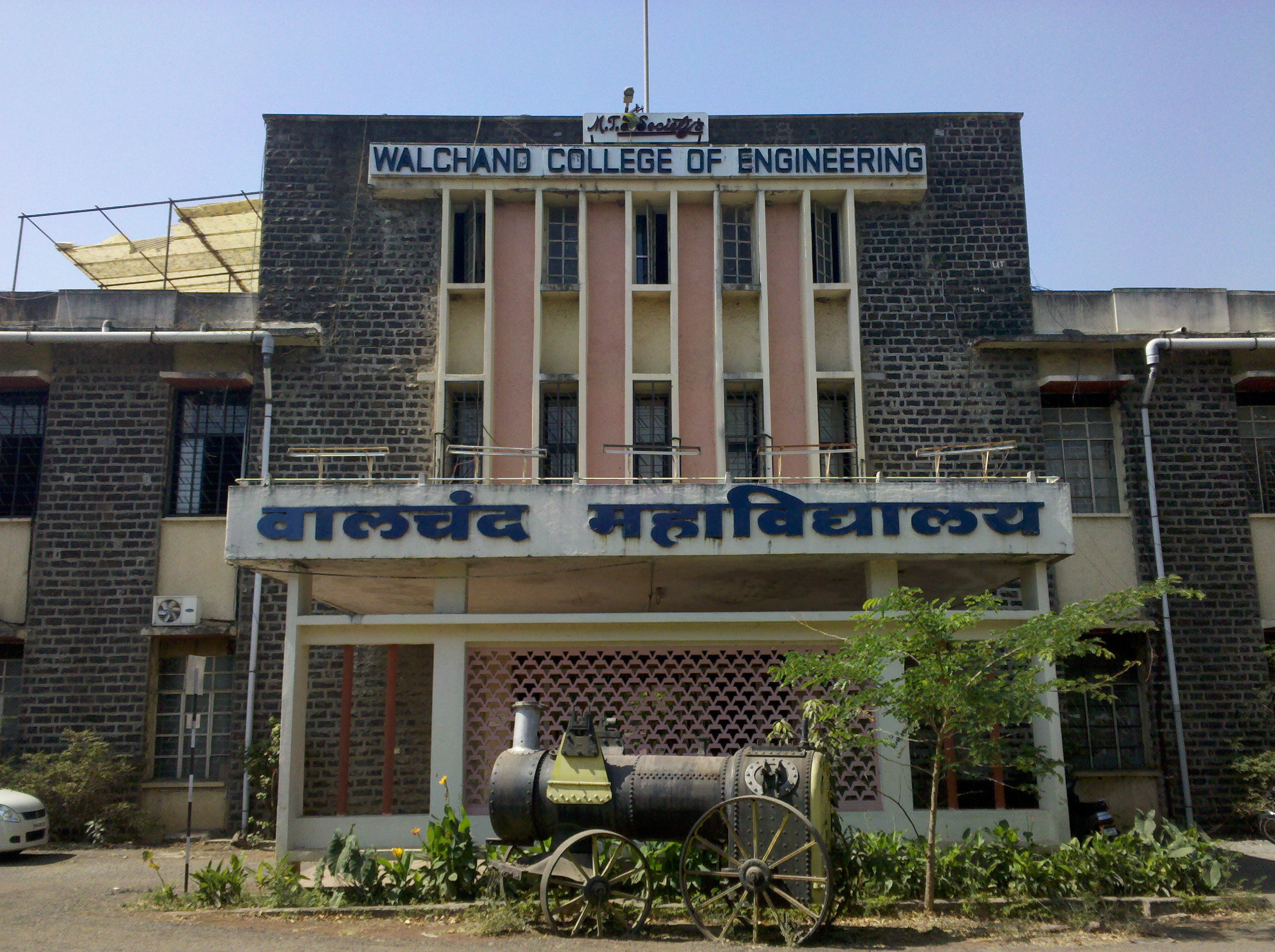 Walchand College of Engineering Sangli Main building